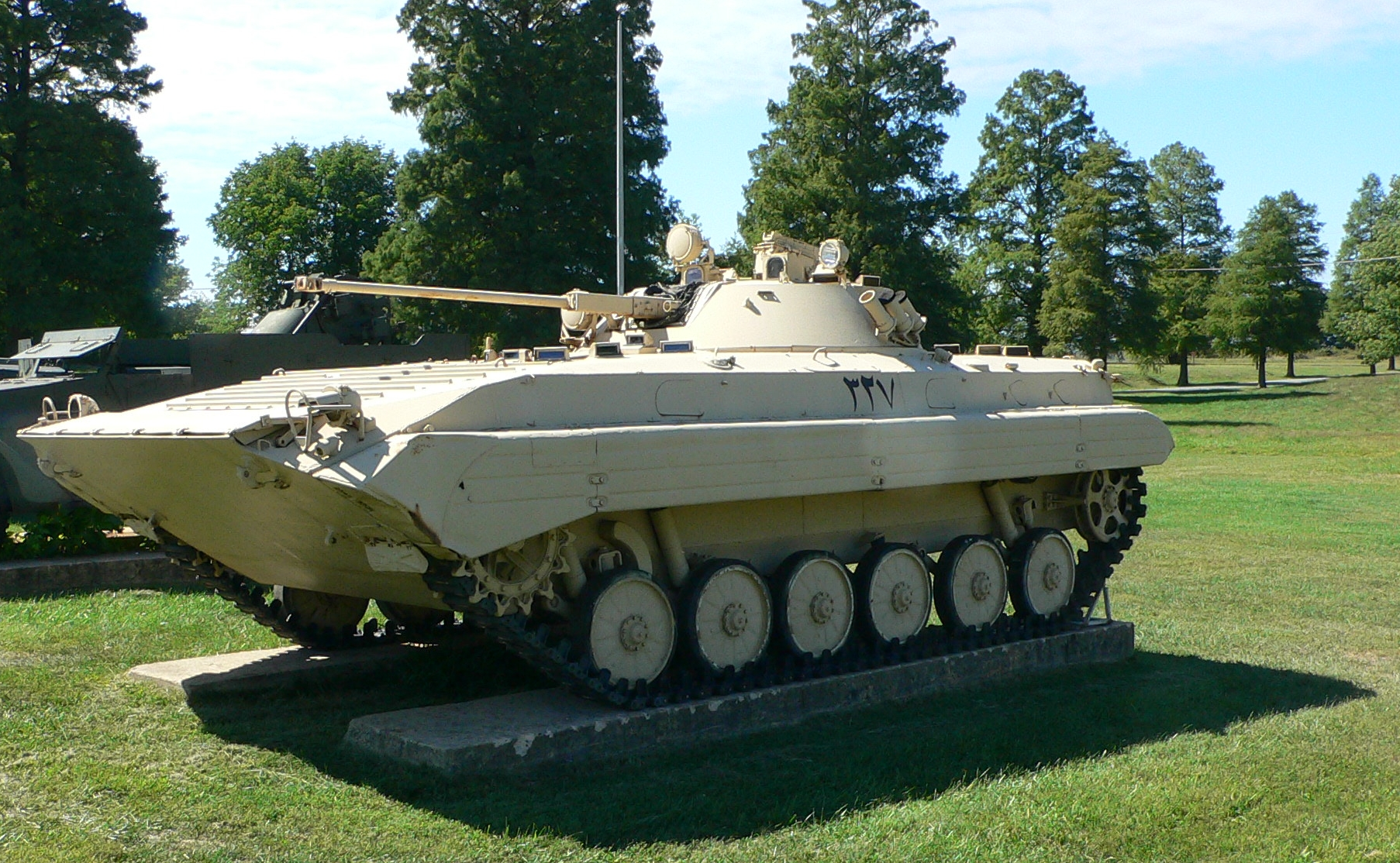 BMP-2 at the United States Army Ordnance Museum (Aberdeen Proving Ground, Maryland).